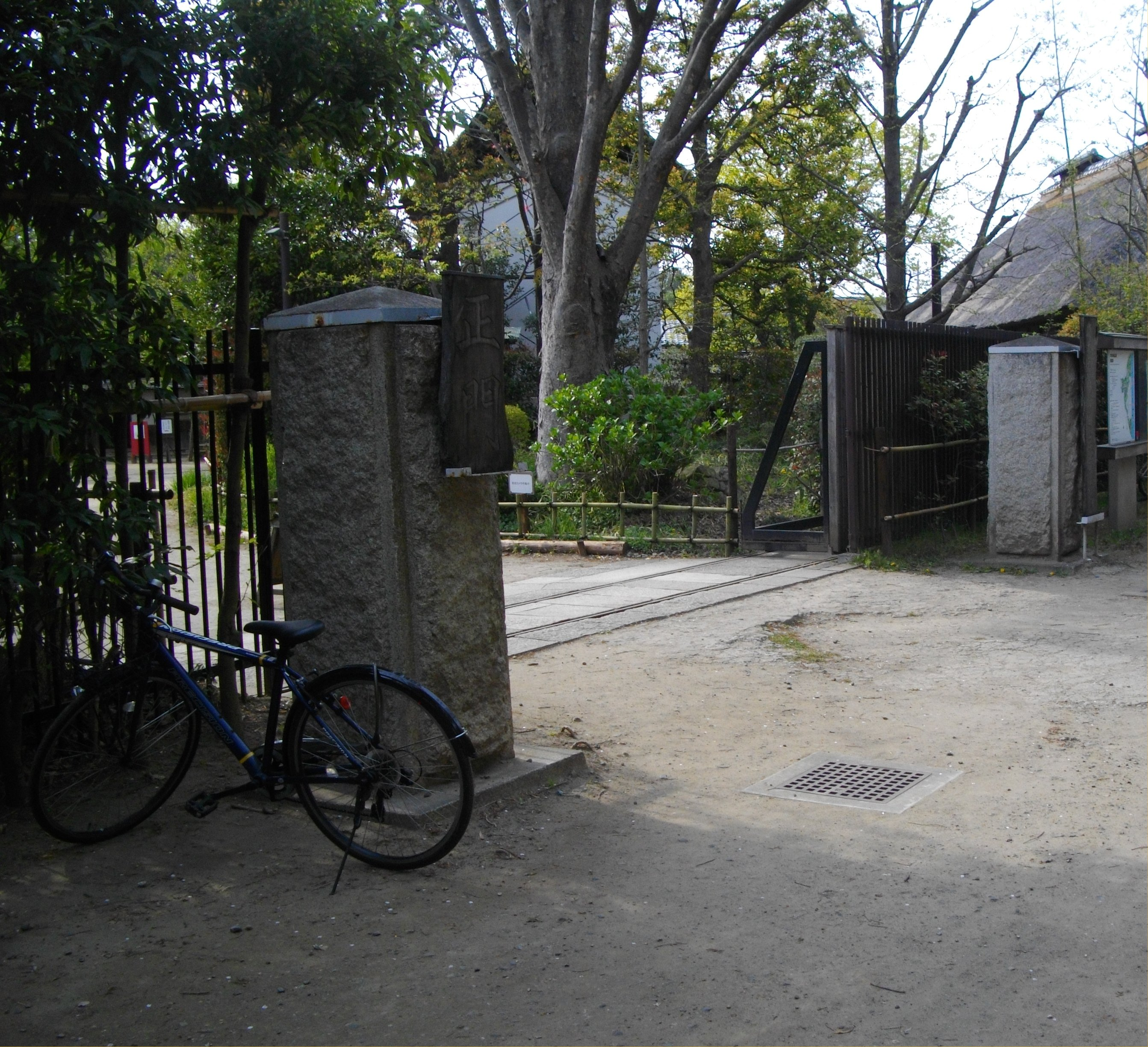 Entrance of the Jidayubori Park in Kitami, Setagaya Ward, Tokyo, Japan